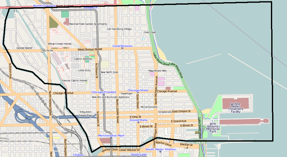 Near North Side, Chicago This map may be incomplete, and may contain errors. Don't rely solely on it for navigation.